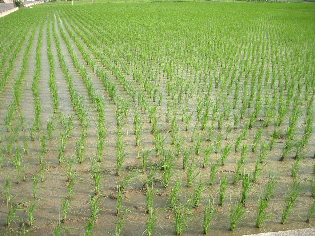 Oryza sativa:rice sprouts in the paddy field in early Summer; 水田の早苗